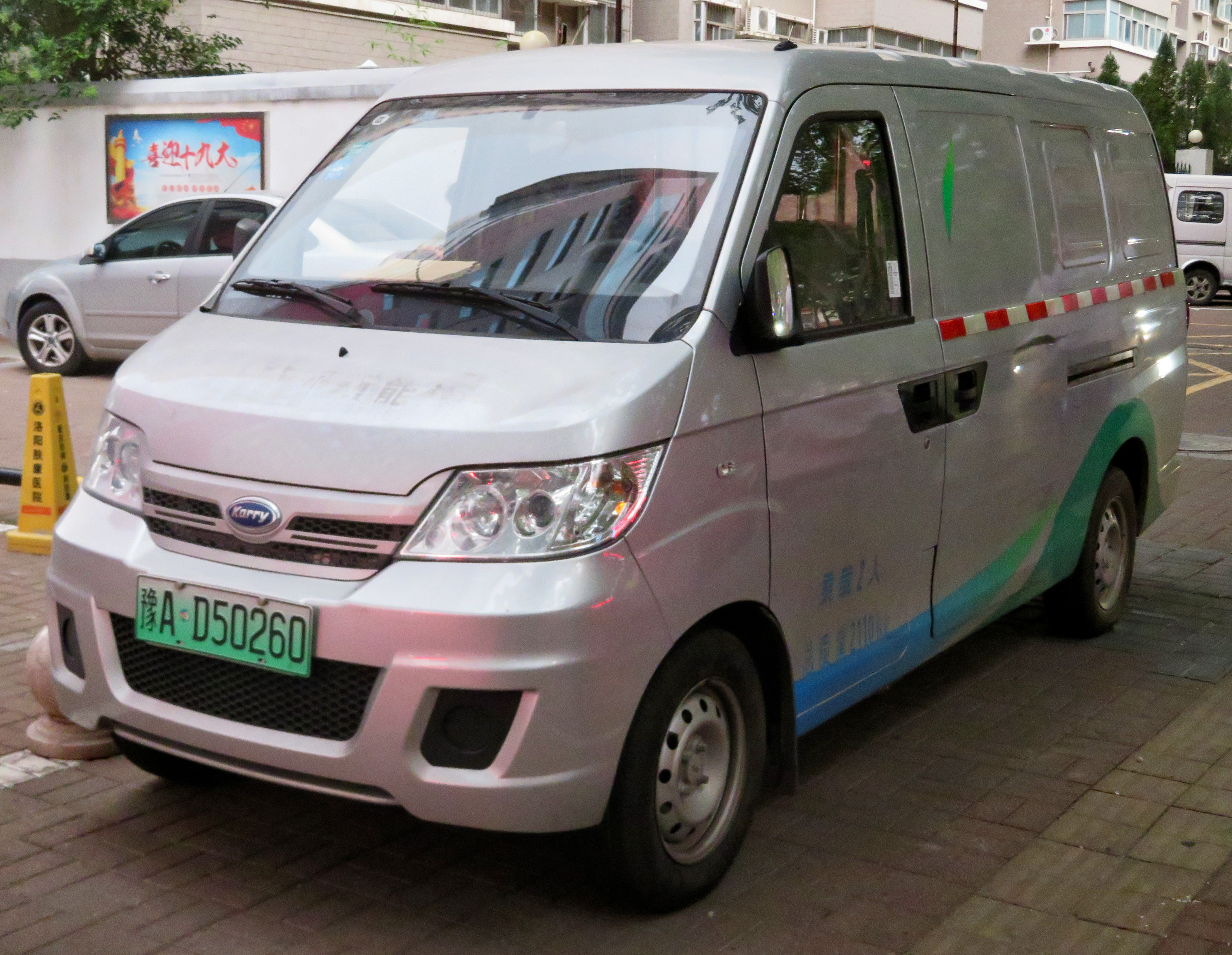 A 2018 Chery Karry Youyou EV photographed in Xigong District, Luoyang, Henan province, China